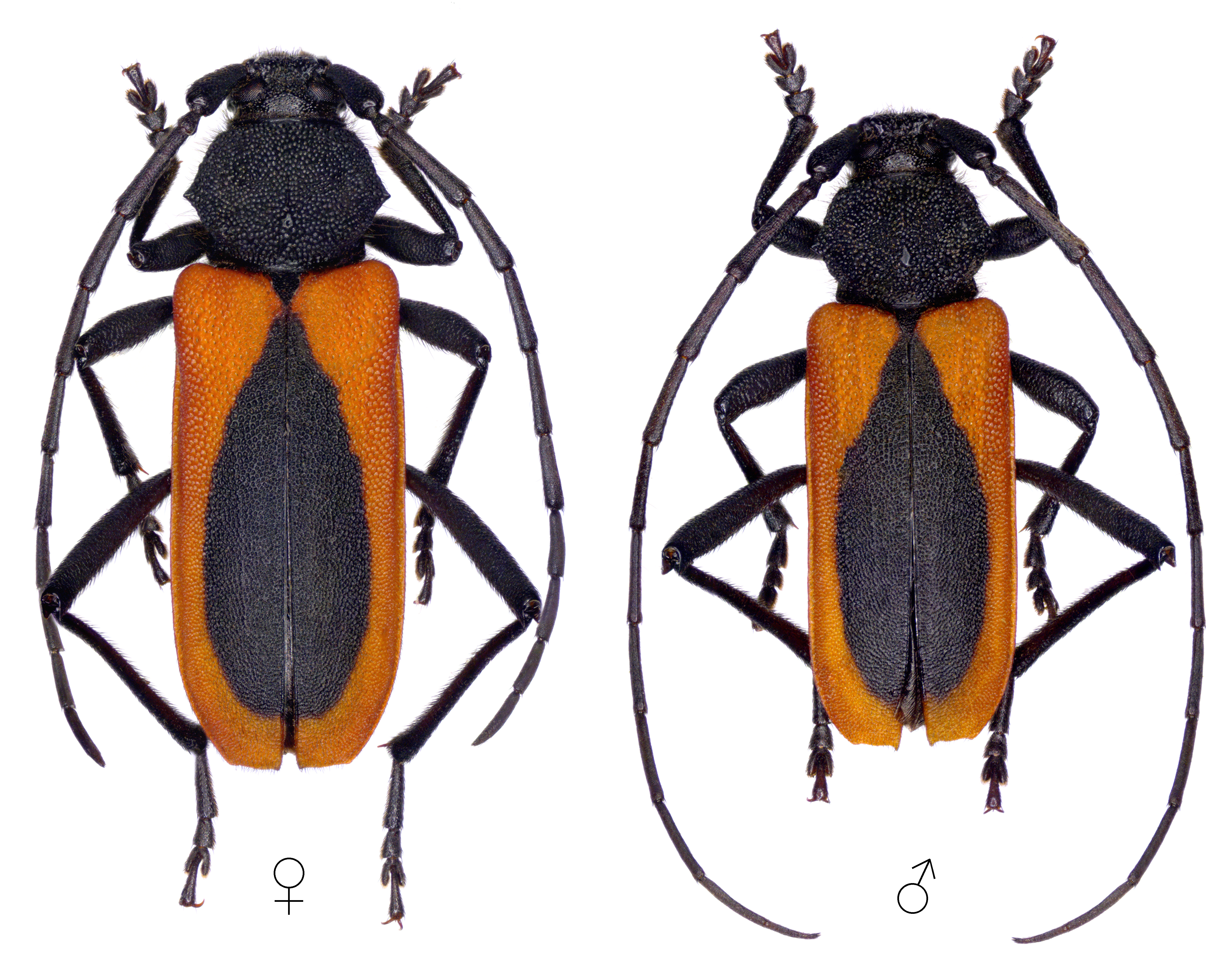 Purpuricenus kaehleri kaehleri Linnaeus, 1758 (Coleoptera, Cerambycidae)